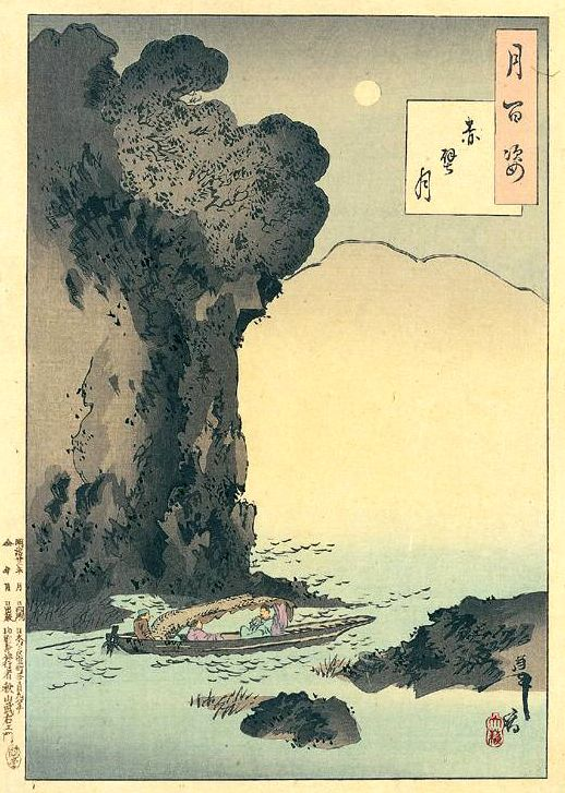 Moon of the Red Cliffs (Sekiheki no tsuki)